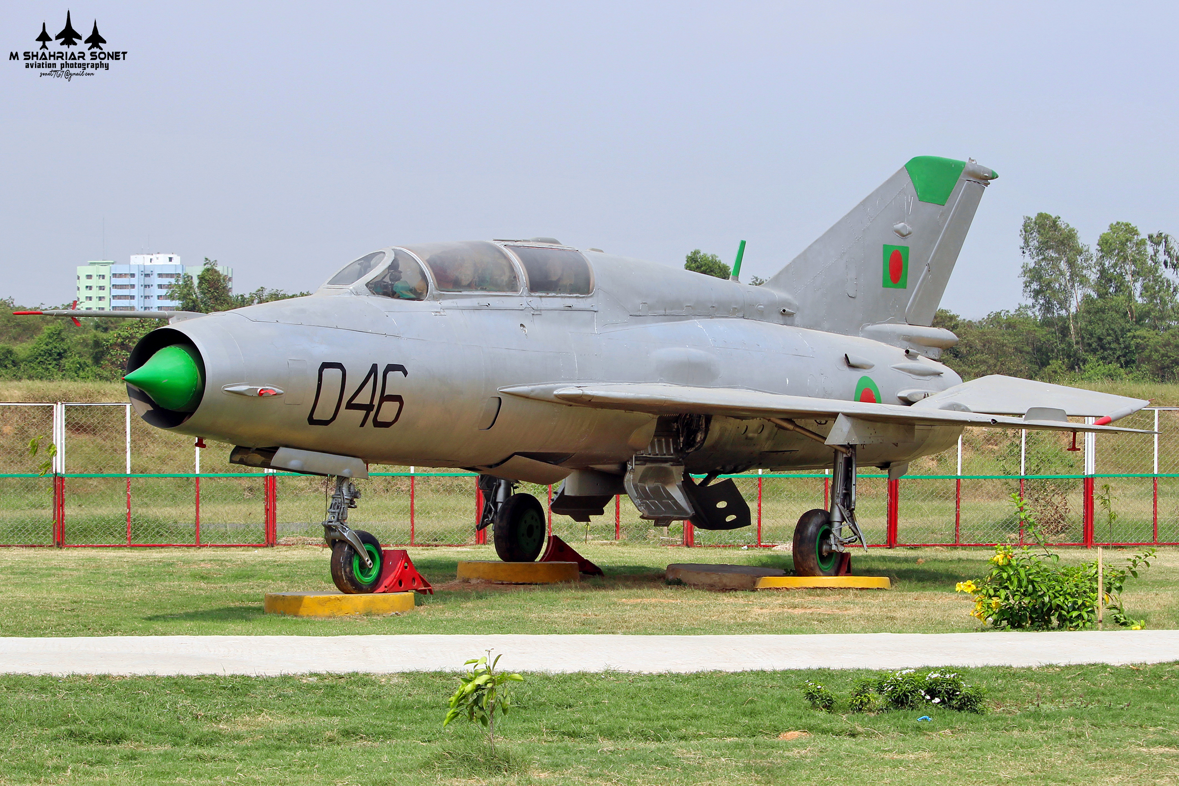 Bangladesh Air Force_Mig-21UM at BAF Museum